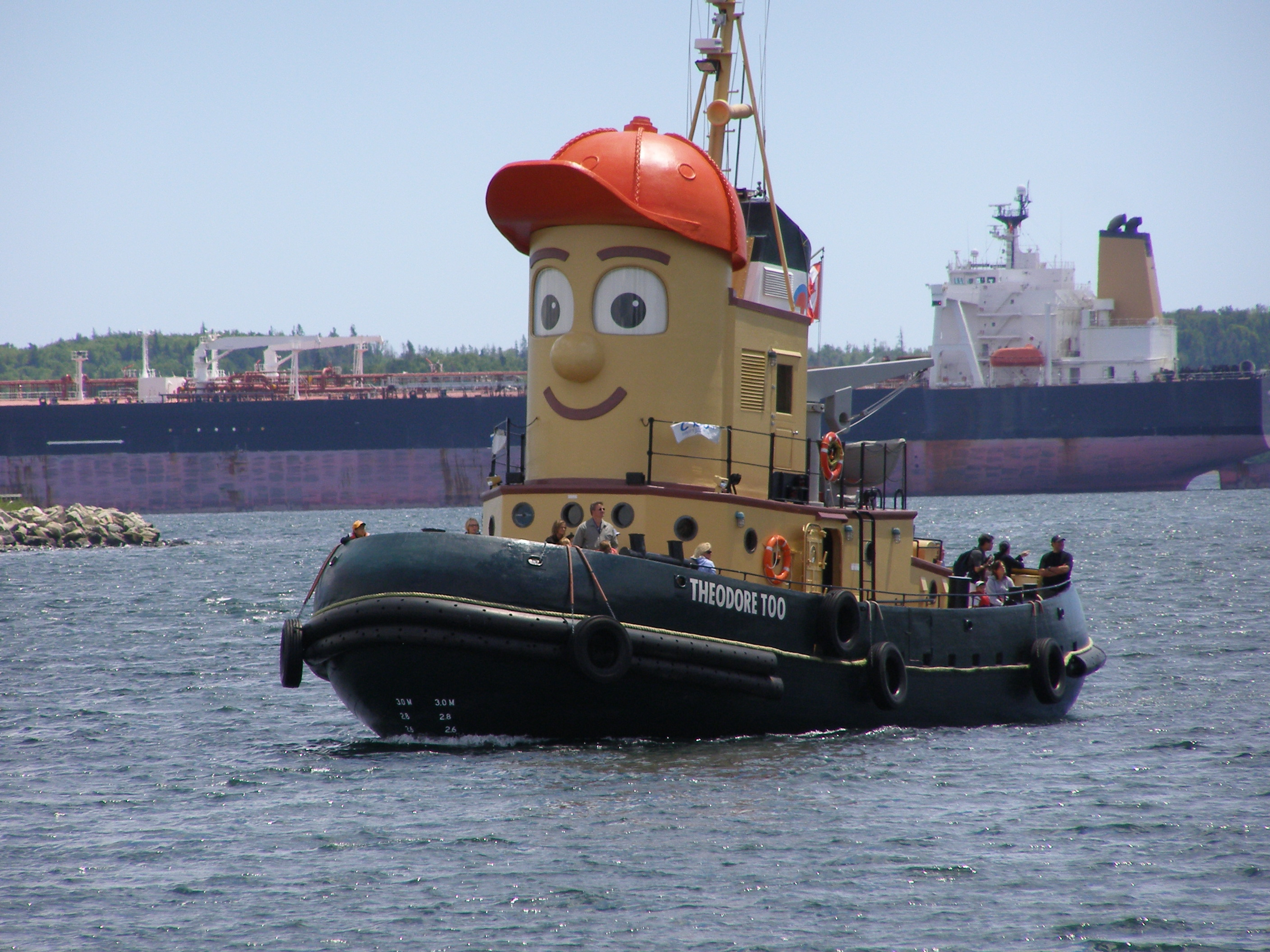 a Tuesday afternoon on the Halifax harbour (July 3 2007)